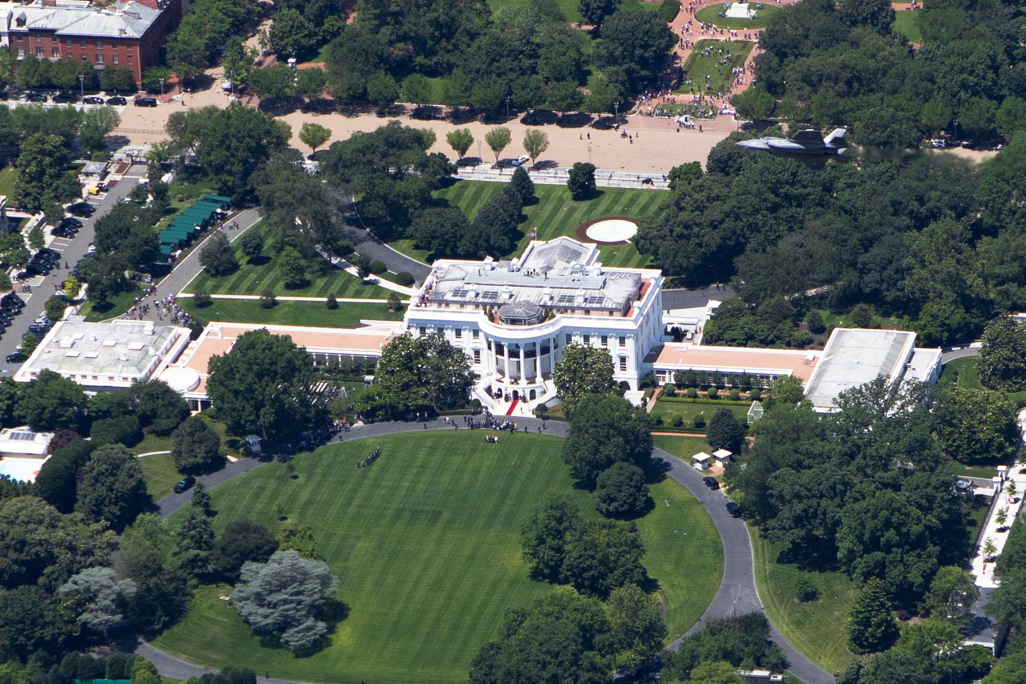 A Marine F-35B Lightning II from Marine Fighter Attack Training Squadron 501, Marine Corps Air Station, Beaufort, S.C. flies over the White House on June 12, 2019, to honor President Duda of the Republic of Poland. The flyover showcases the F-35 Joint Strike Fighter while also logging required training hours to maintain readiness. The F-35 combines next-gen fighter characteristics of radar-evading stealth, sensor fusion, fighter agility and advanced logistical support with the most powerful and comprehensive integrated sensor package of any fighter aircraft in history, providing unprecedented lethality and access to highly-contested environments.